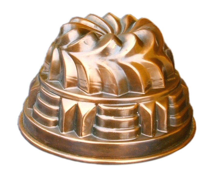 A copper pudding embossed mould